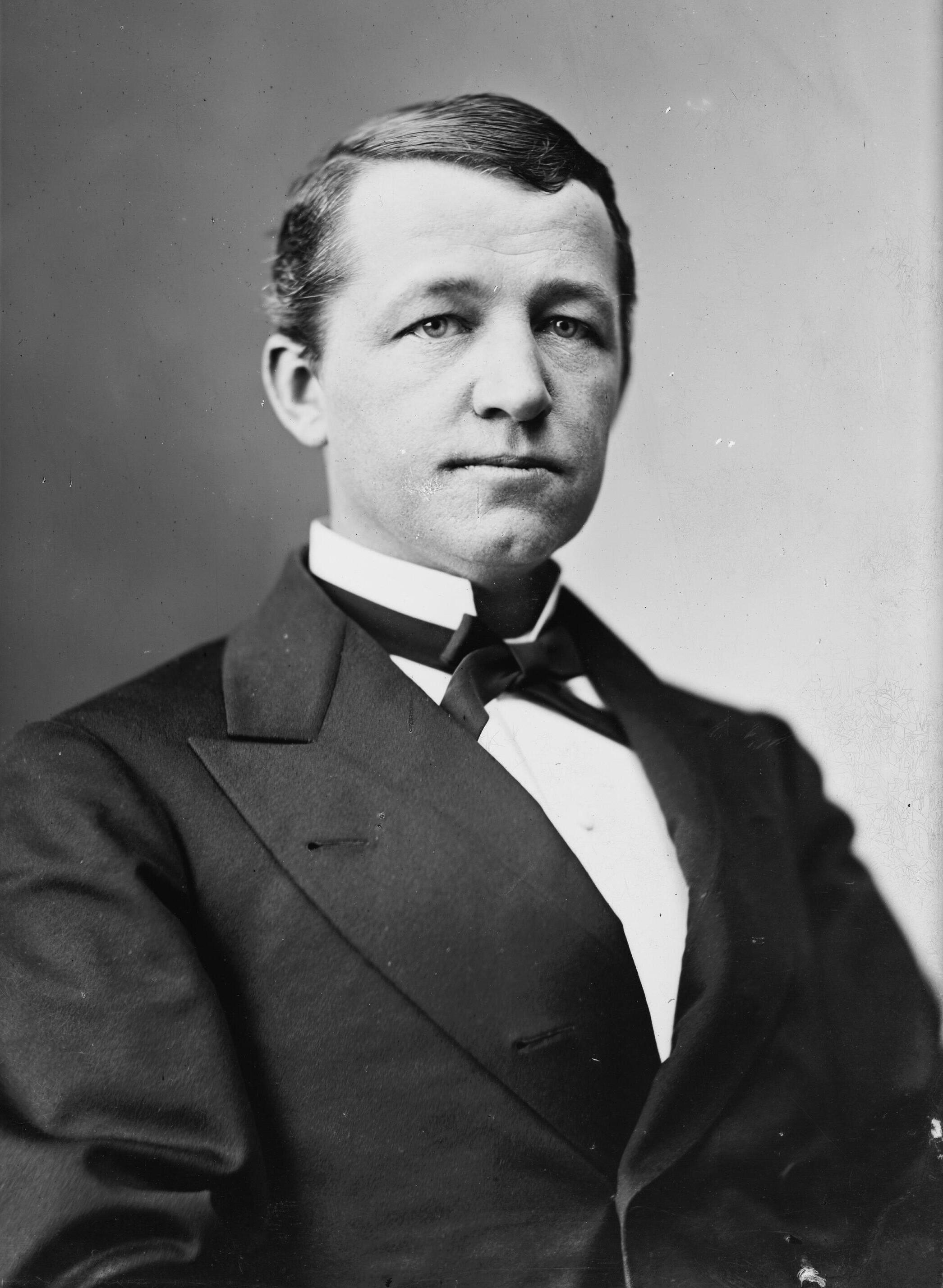 Nathan Goff, Jr.. Library of Congress description: "Goff, Hon. Nathan of W. Va. Secty. Navy - Hays Admin."